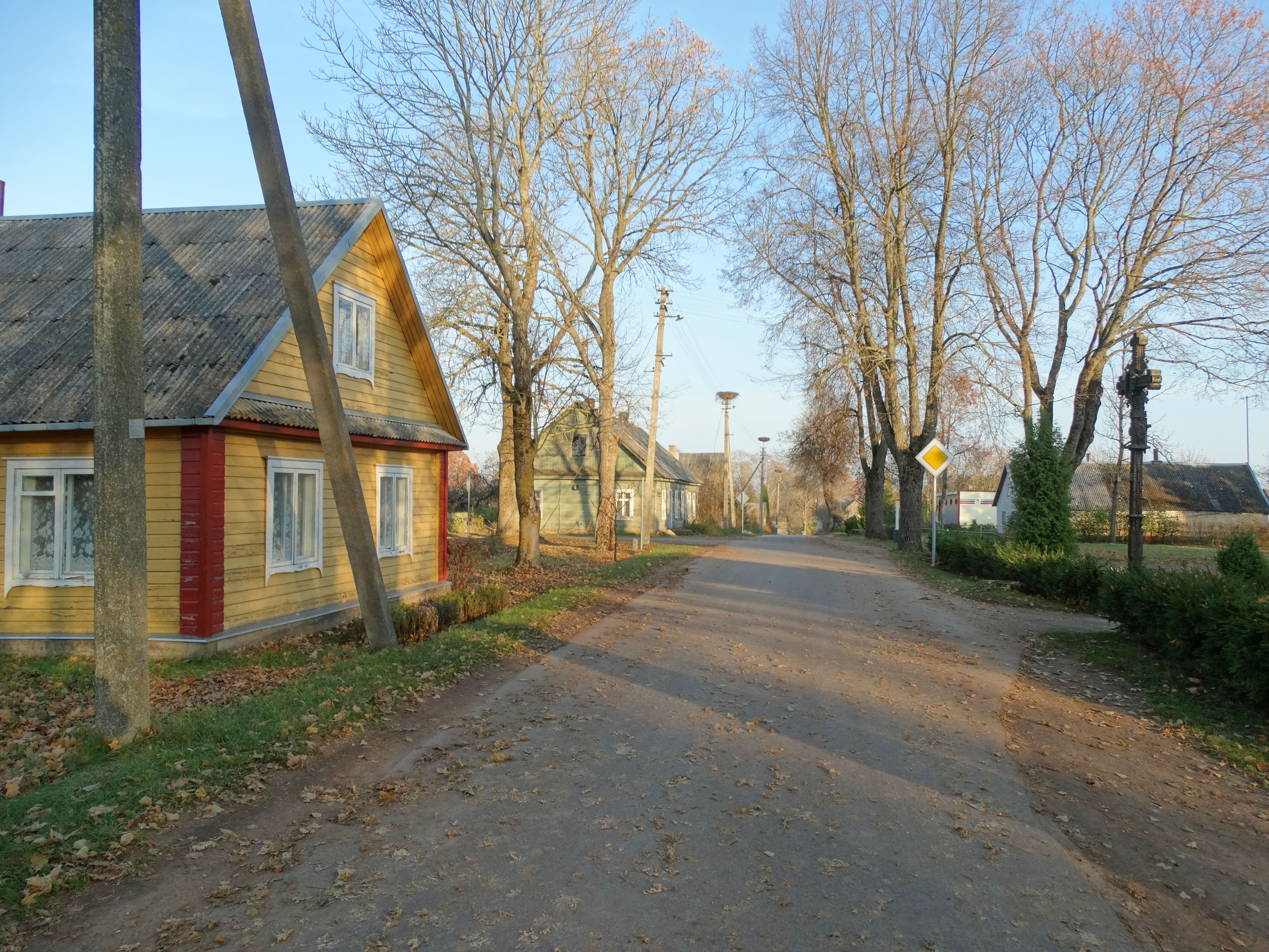 Aviliai, Zarasai district, Lithuania